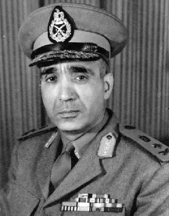 Official portrait of Abdul Munim Riad as Chief of Staff of the Egyptian Armed Forces